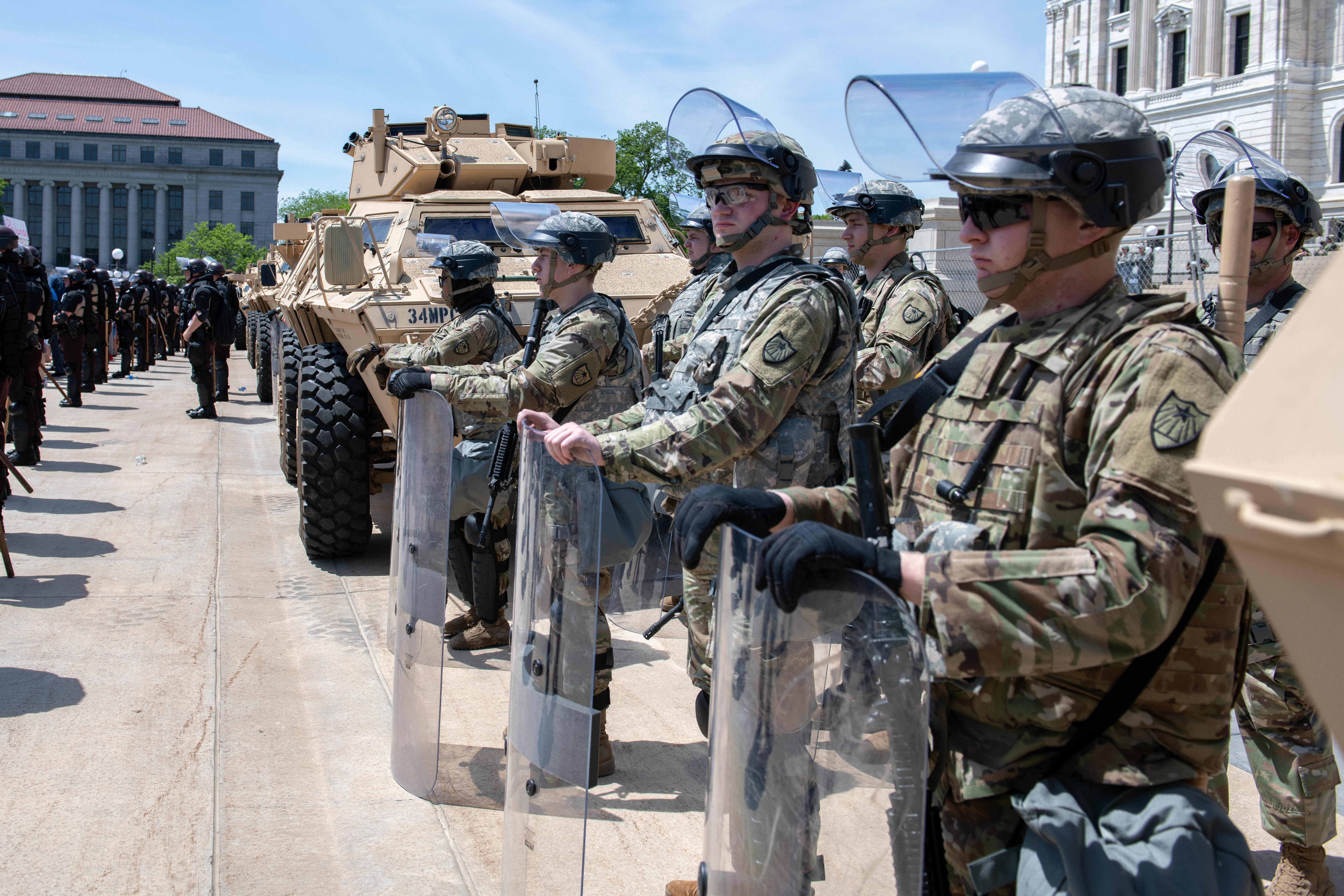 Minnesota National Guard Soldiers stand in front of the state capitol building in St. Paul, Minnesota, with other law enforcement on May 31, 2020, during a demonstration in response to the death of George Floyd on May 25. Soldiers and Airmen were first activated in response to civil unrest in the Twin Cities on May 29 followed by the entire Minnesota National Guard being activated on May 30 as part of the largest domestic deployment in our 164-year history. (Minnesota National Guard photo by Sgt. Sebastian Nemec)